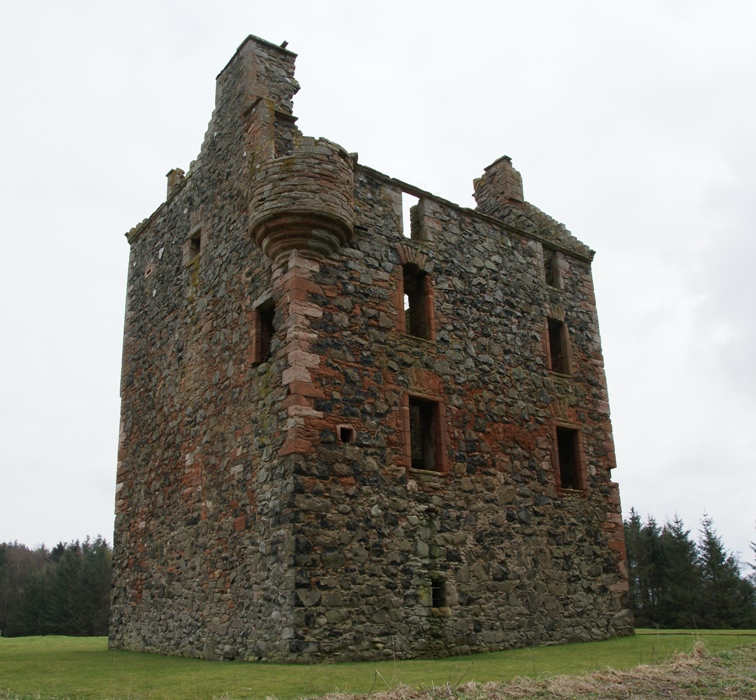 Greenknowe Tower, Scottish Borders, Scotland